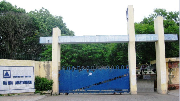 Hanoi - Amsterdam High School Old Campus, Front Gate in 2010.